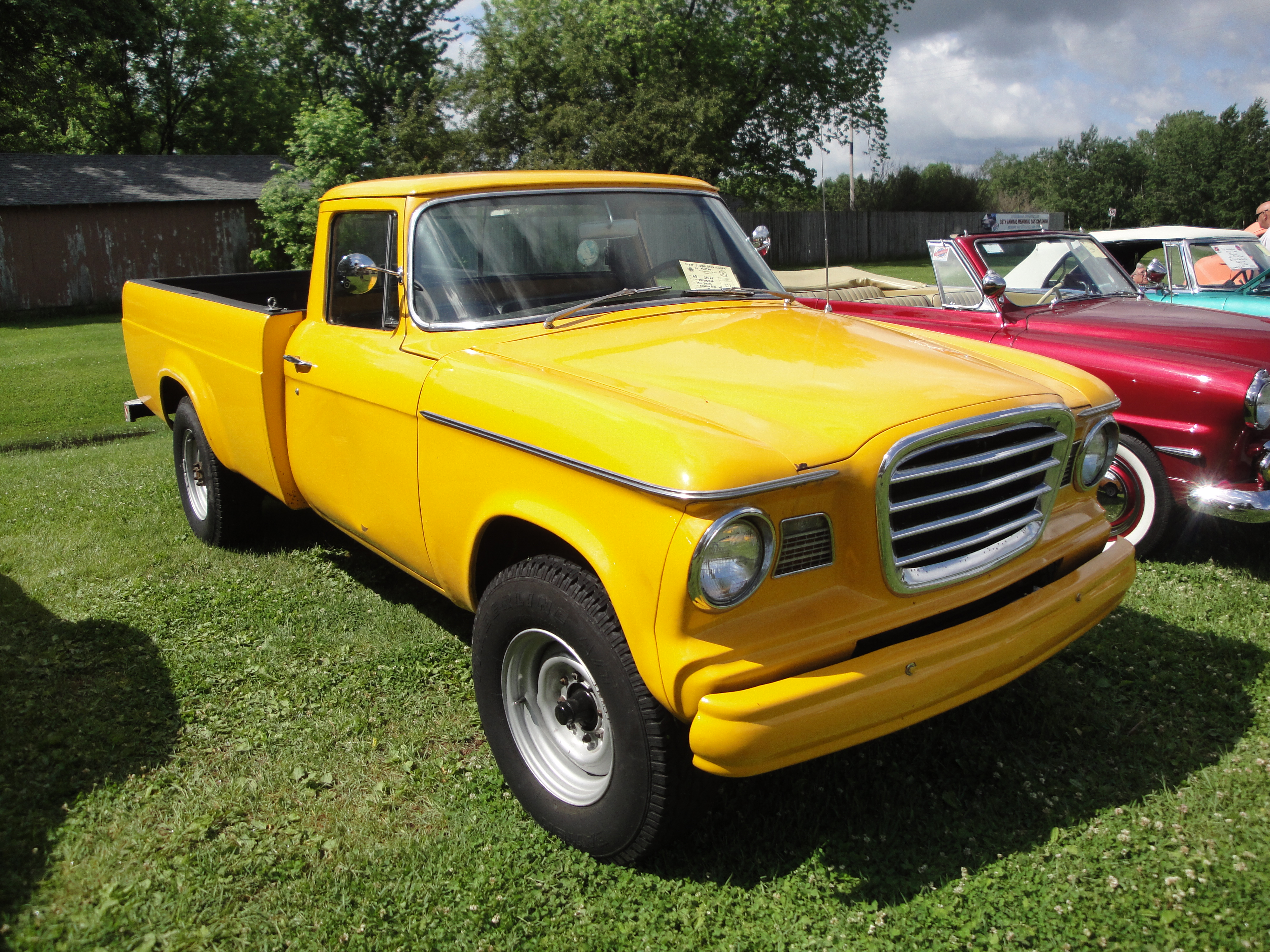 2012 Memorial Day Car Show Hosted by the North Star Chapter of the Studebaker Drivers Club